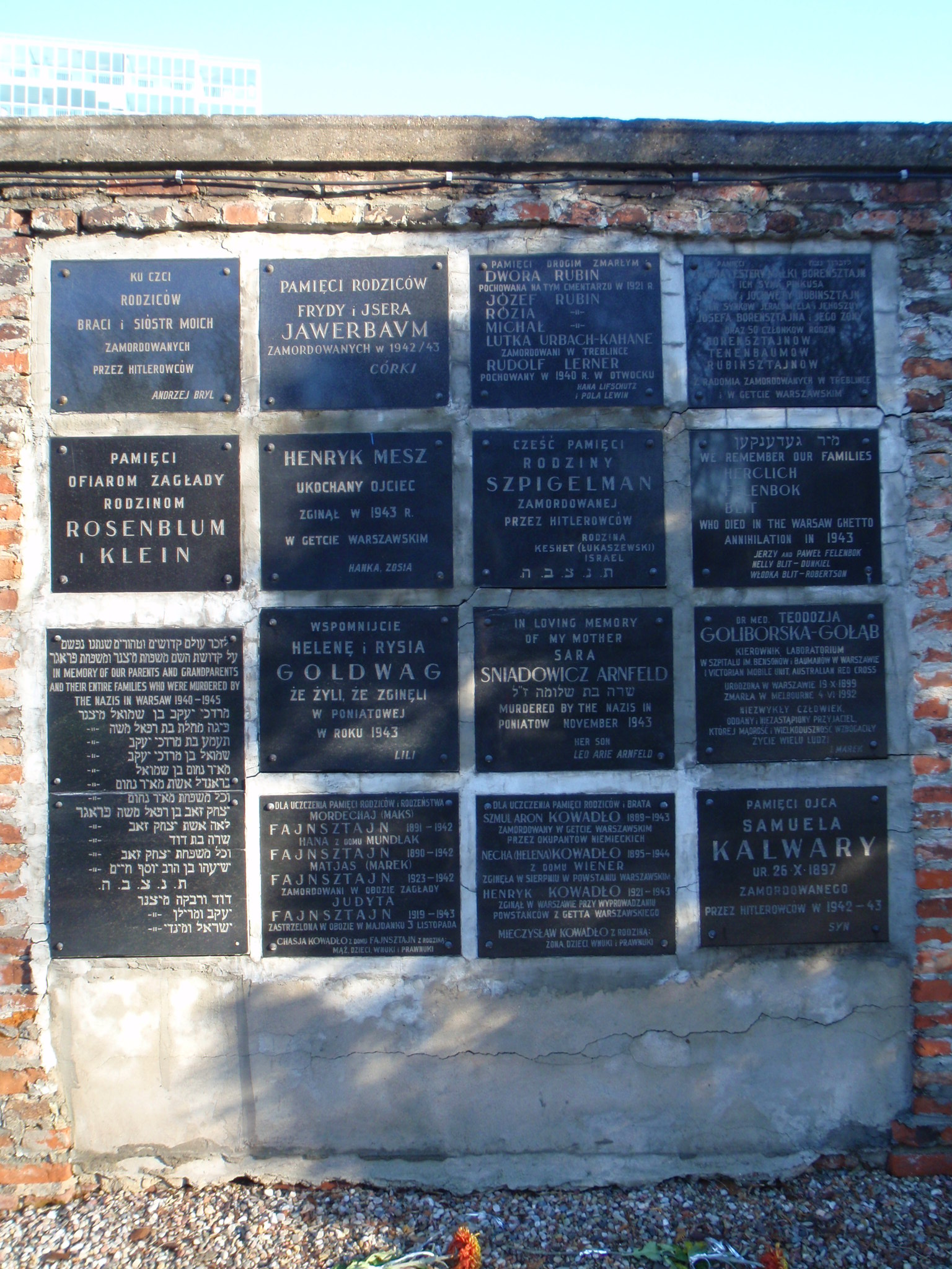 Commemorative plaques on the wall of Jewish cemetery in Warsaw